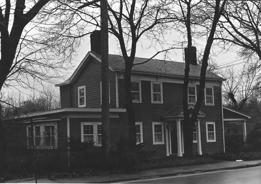 House at 364 Cedar Avenue, Long Branch, New Jersey. This house was demolished about 2009.